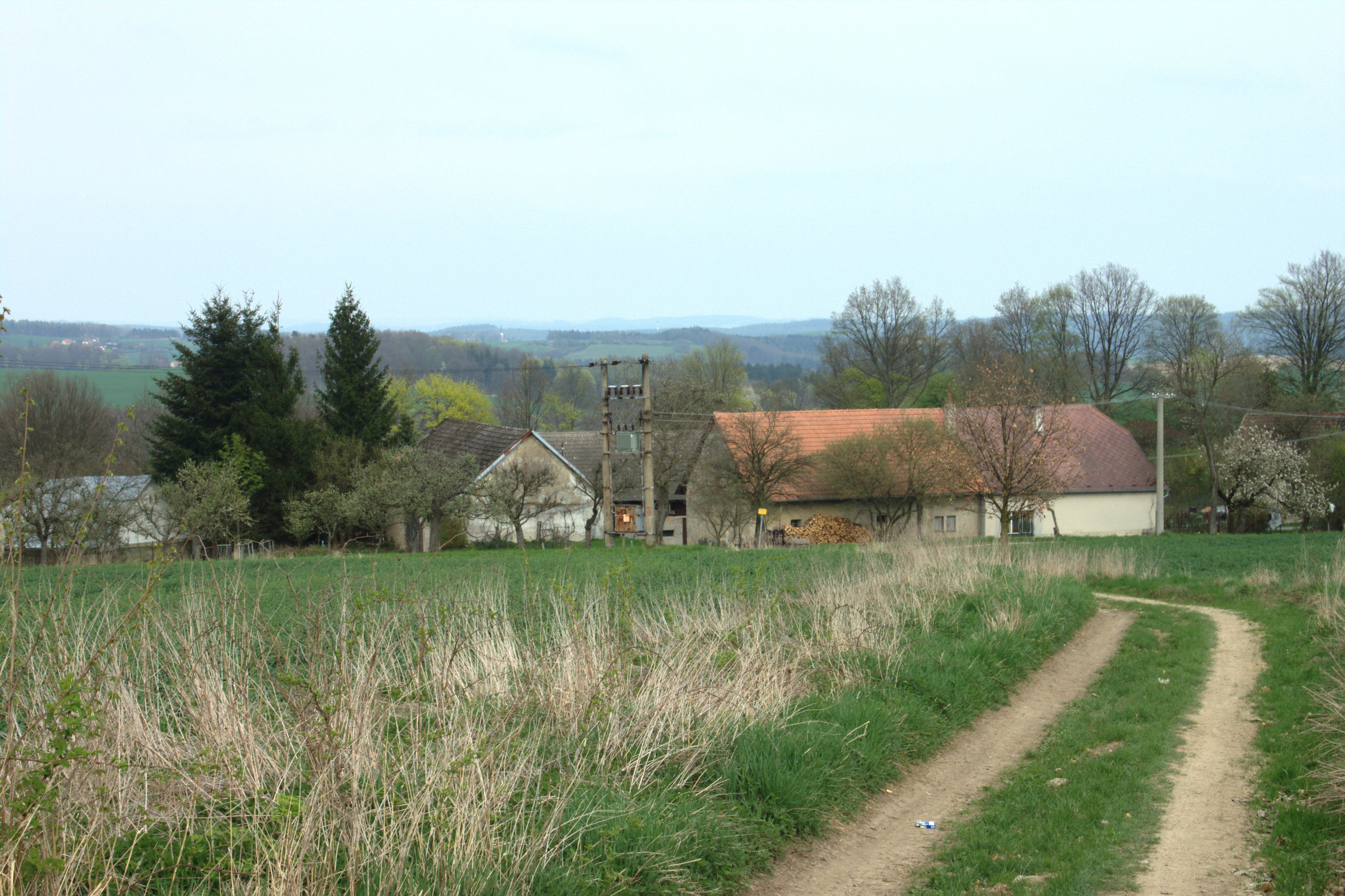 Mokliny settlement in between of the villages of Pozov and Roubíčkova Lhota, Benešov District